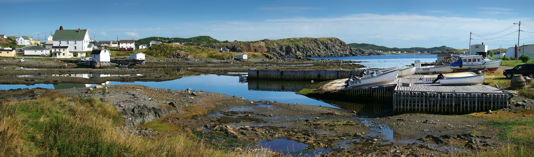 Twillingate, Central Newfoundland, Canada.